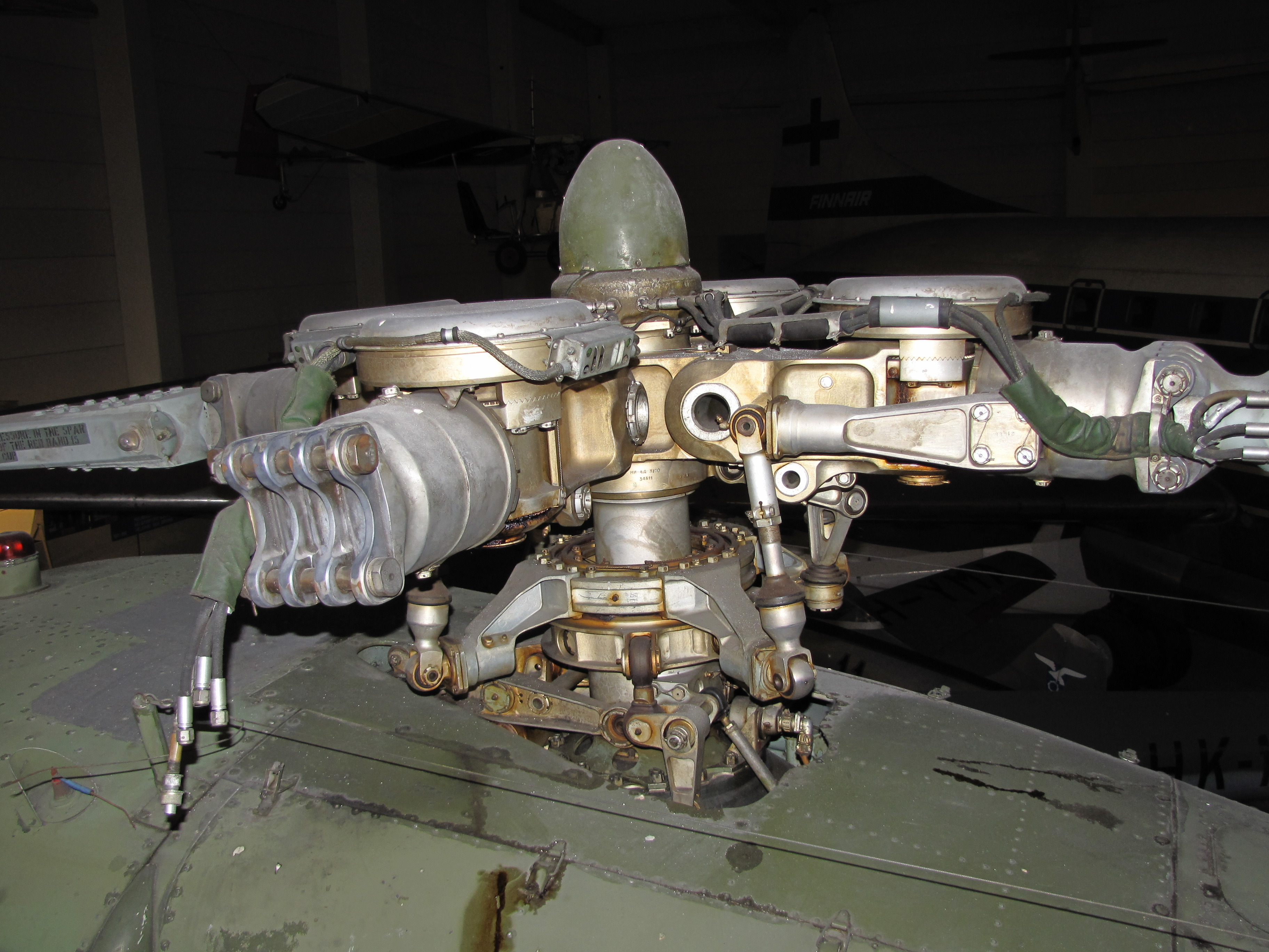 Rotor hub of Mil Mi-4 helicopter in Finnish Aviation Museum. Registry HR-3, used by Finnish Air Force between 1962-1979. Serial number 009114.